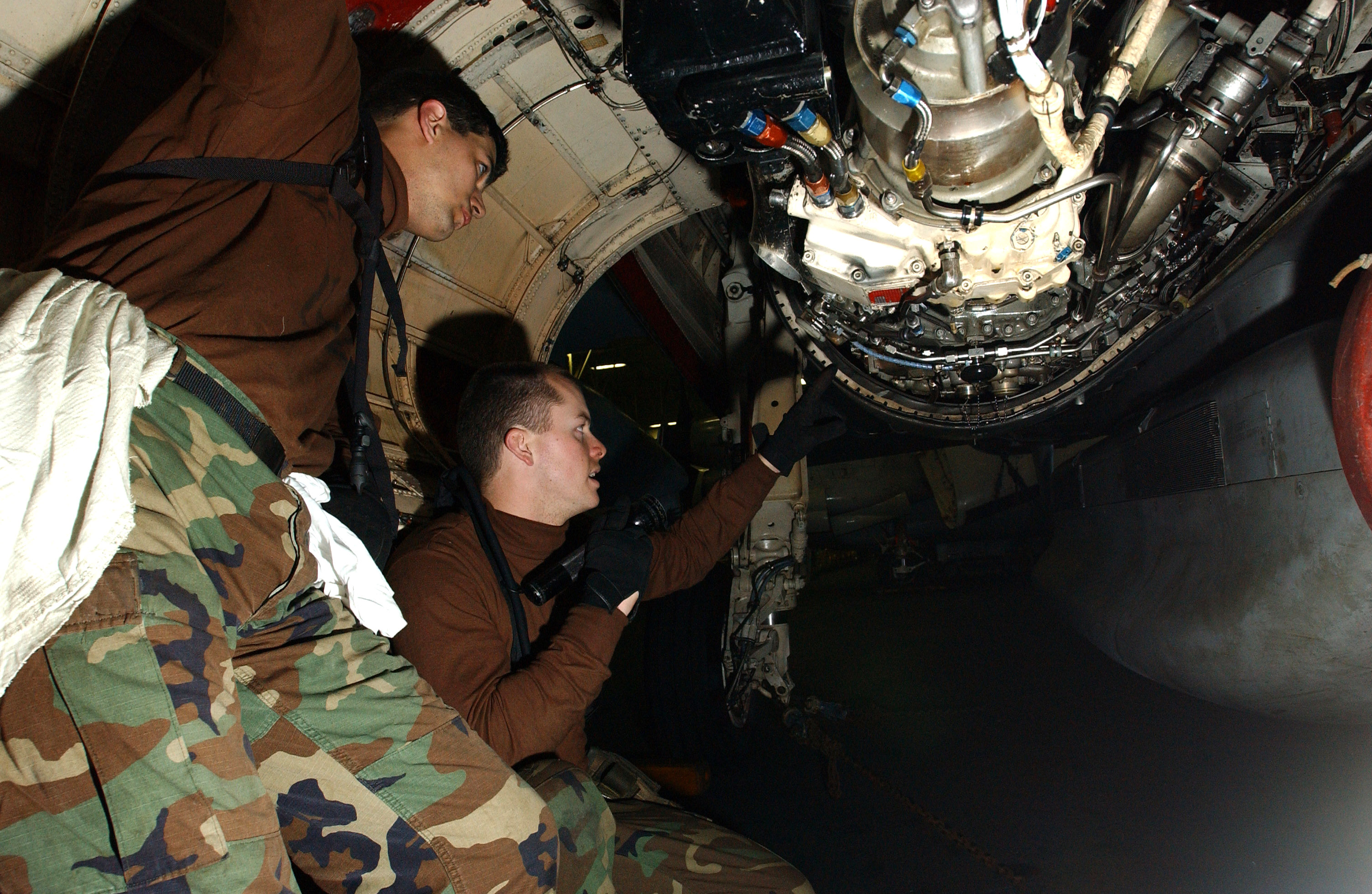 Pacific Ocean (Jan. 29, 2007) – Airman Chris Miller explains how to do a turnaround inspection on an EA-6B Prowler from Tactical Electronic Control Squadron One Three Nine (VAQ-139) to Storekeeper Seamen Jason Caron inside the hanger bay aboard USS Ronald Reagan (CVN 76). Ronald Reagan Carrier Strike Group is currently underway in support of operations in the western Pacific. U.S. Navy photo by Mass Communication Specialist 2nd Class John P. Curtis (RELEASED)